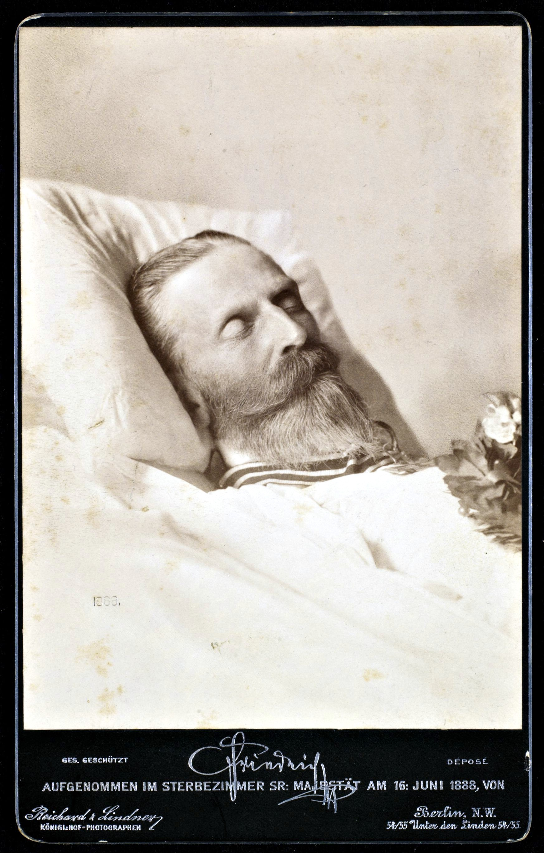 Post-mortem portrait of Emperor Friedrich III, 1888.Cabinet Photo pasted on black paper with silver-edged, with a post-mortem portrait lying in repose Emperor Friedrich III, June 16, 1888, at the Neues Palais in Potsdam. The Emperor lies with the head on a pillow. Around his neck a ribbon with the Grand Cross of the Iron Cross. On his chest is a laurel wreath, which was put down there with his sword by his widow Victoria. Vicky had given the wreath Friedrich in 1871 when he returned from the Franco-Prussian war.